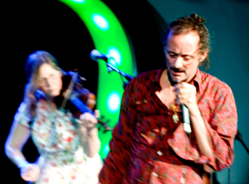 Current 93 at All Tomorrow's Parties 17 May 2007, cropped and colour fixed